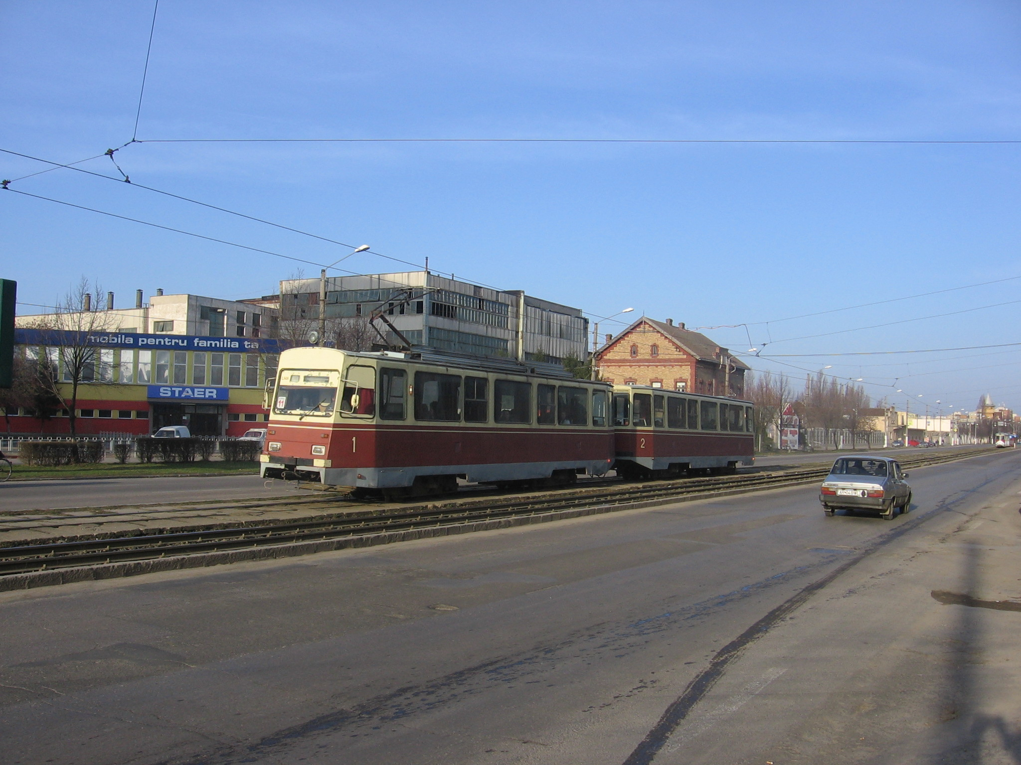 Arad (1000 mm): Timis2 type tram 1+2 (modif Astra SA-1998) on Calea Aurel Vlaicu passing in the front of Astra SA towards Railwaystation (Gara) on 25.03.2006